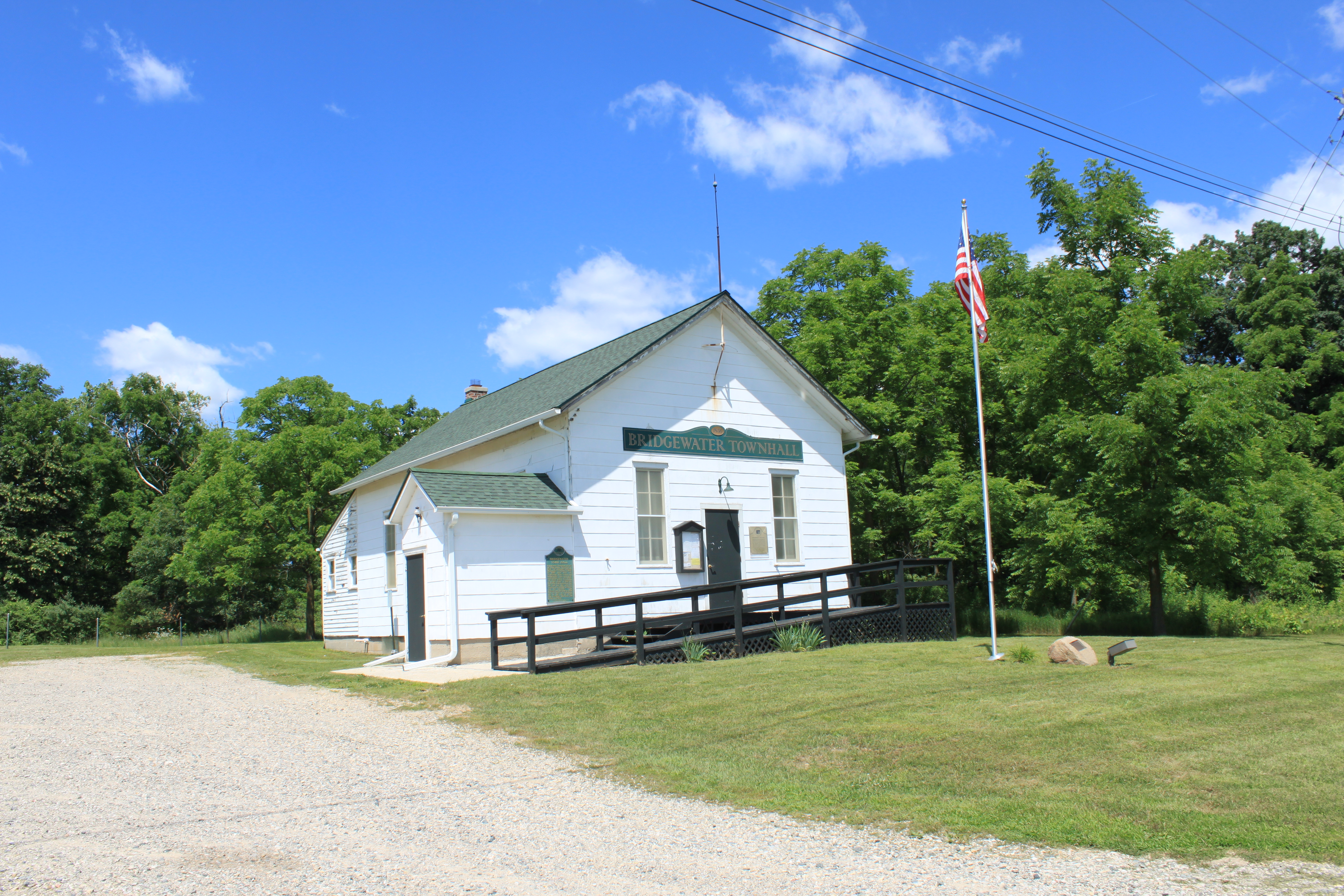 Bridgewater Township Michigan Townhall, Clinton & Braun Rds.